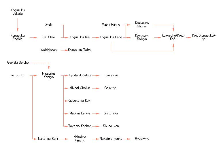 The lineage of Naha-te